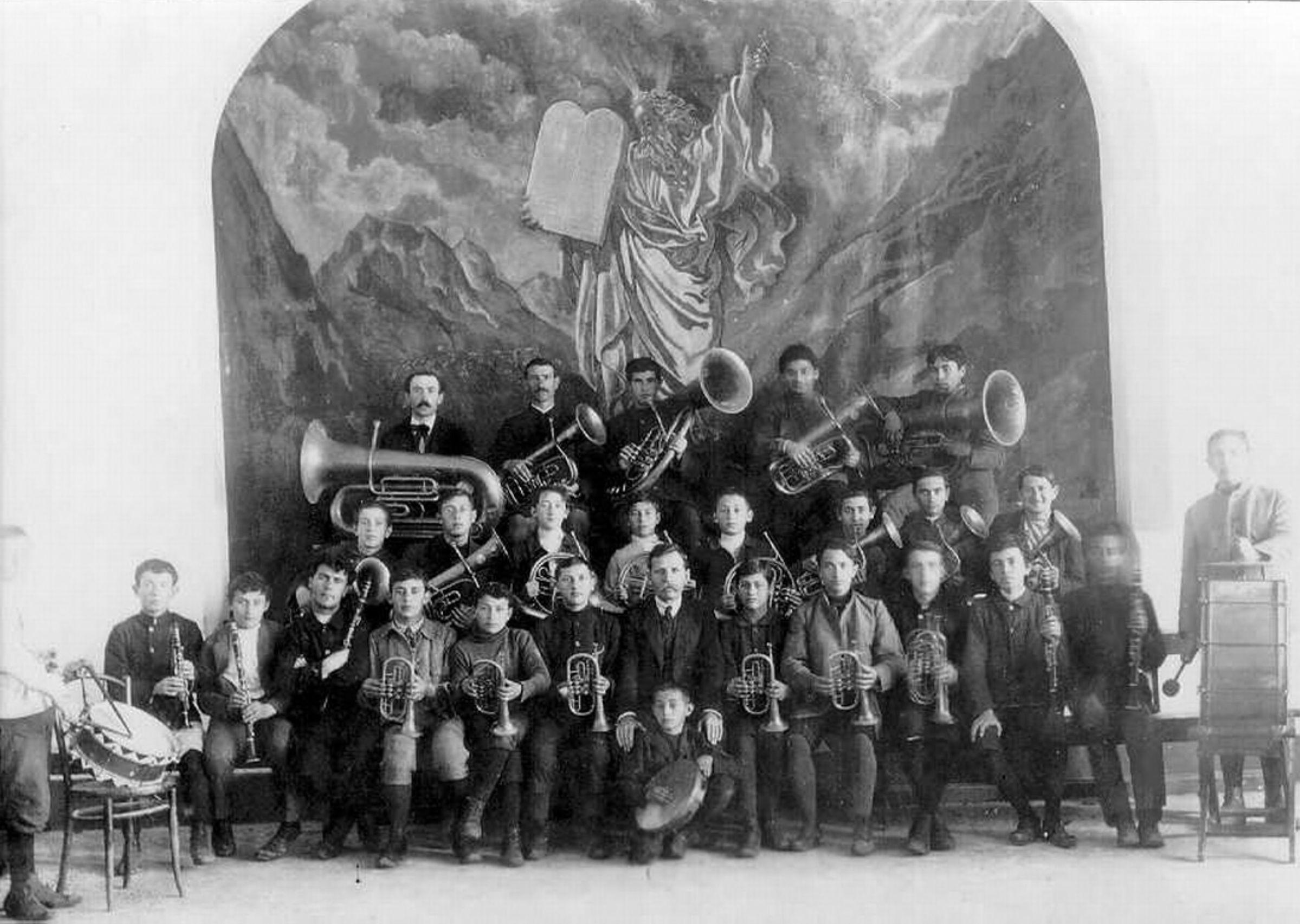 The Herzliya Hebrew High School's first orchestra, under the leadership of Hanina Karchevski, 1914